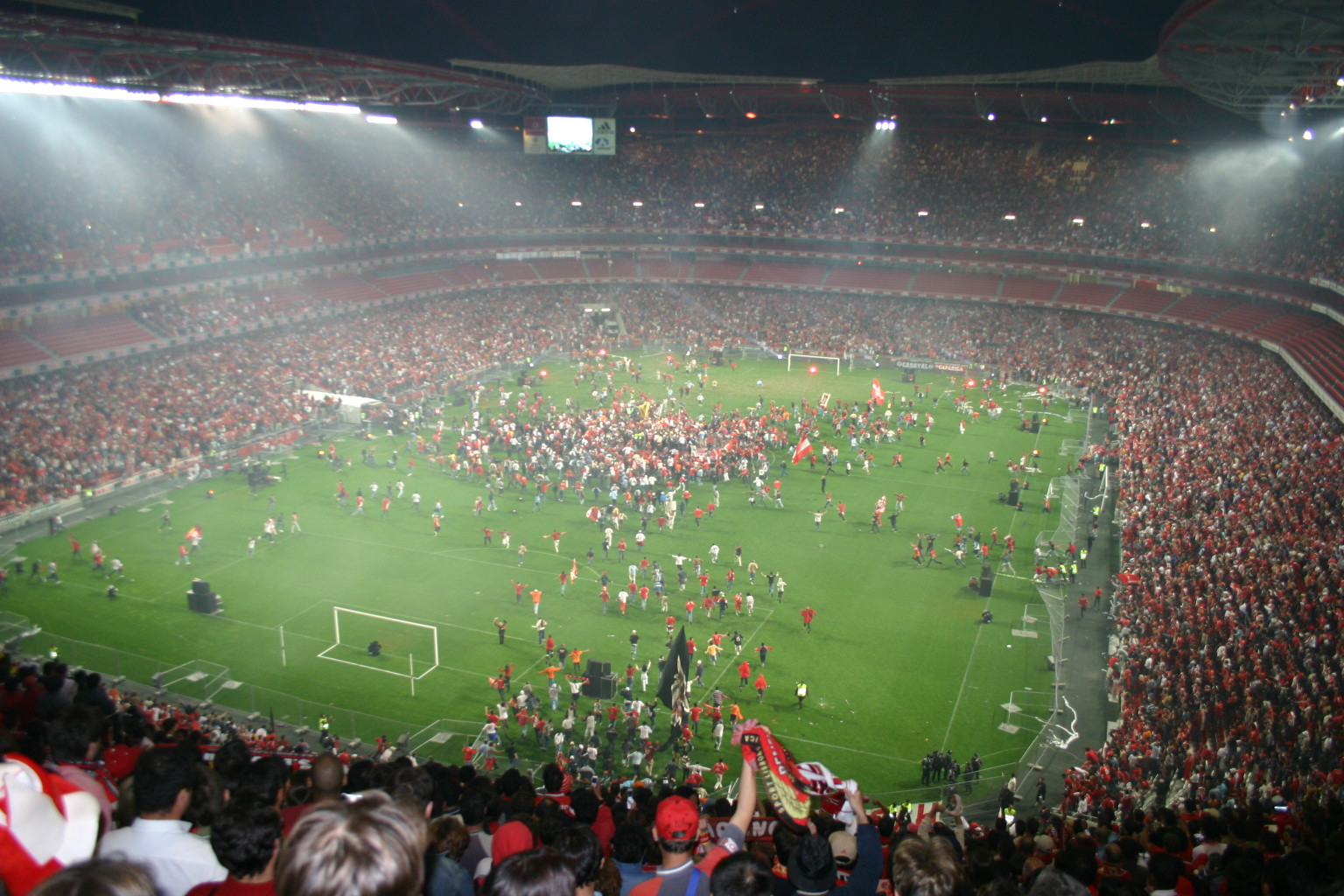 Autor: António ML Cabral Esta foto pode ser usada para qualquer tipo de utilização com a condição de ser indicado o nome do autor. This picture can be used for all kinds of usage with the condition of the author's name to be indicated.